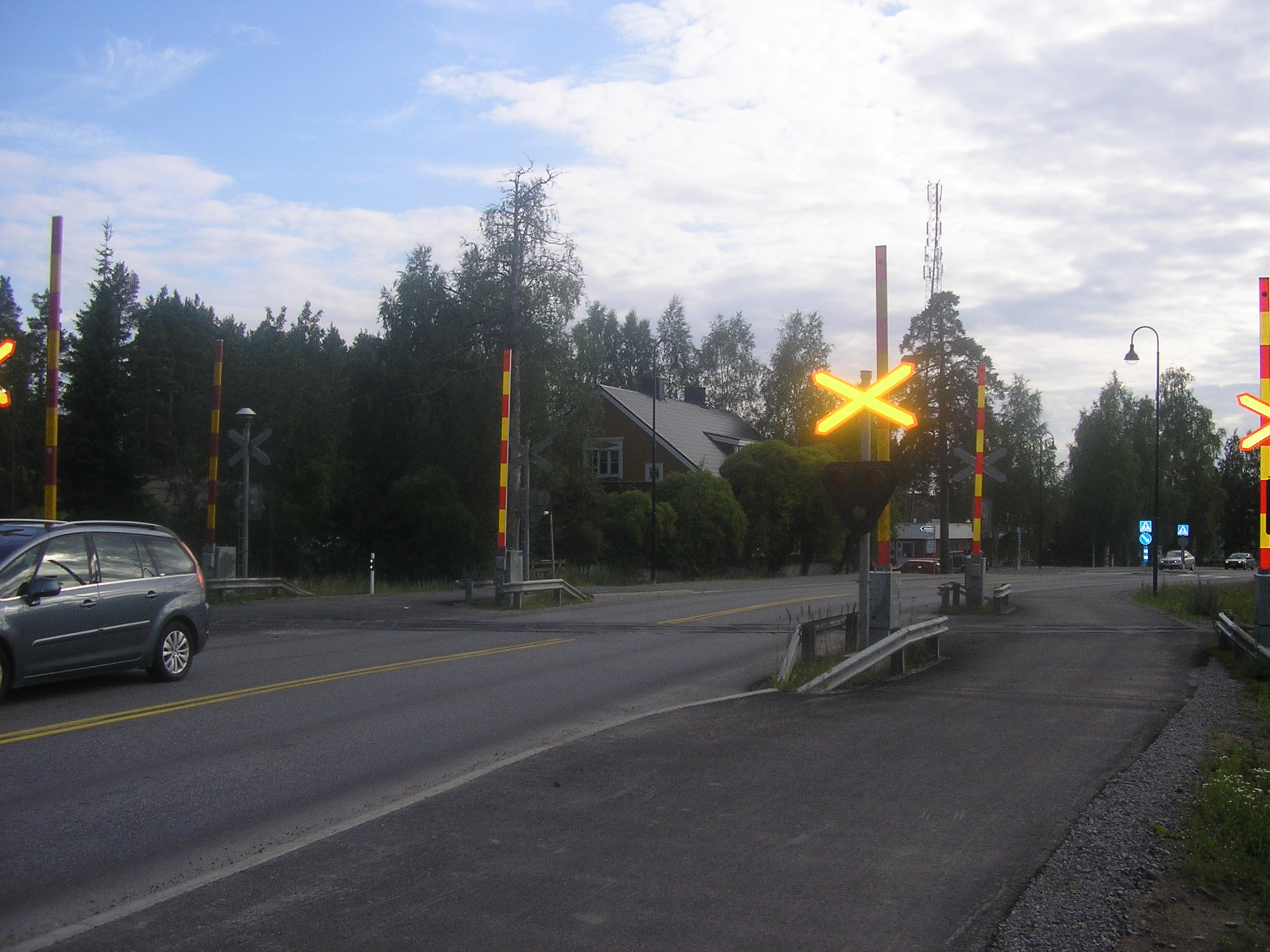 Haapamäki–Seinäjoki railway crosses main road 18 in Tuuri, Töysä, Finland